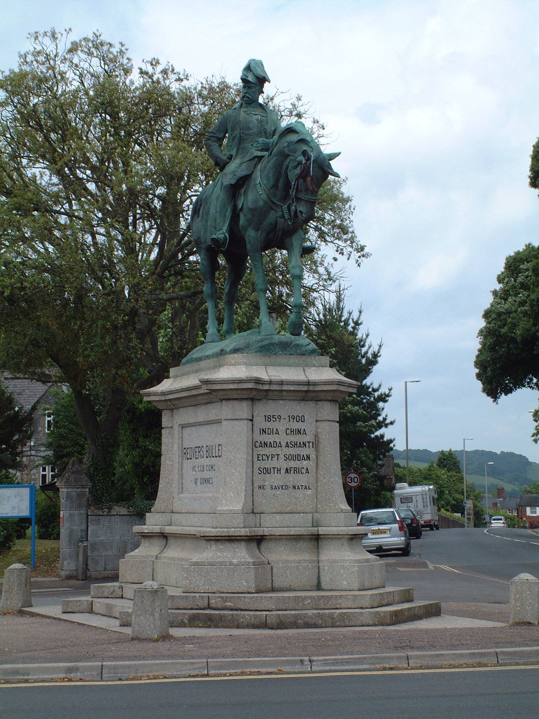 Statue of Redvers Buller in Exeter